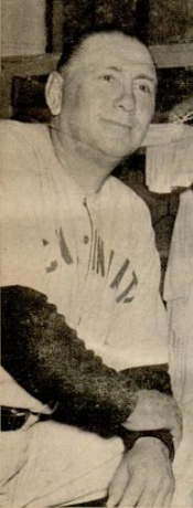 An image of Major League Baseball manager Johnny Neun.